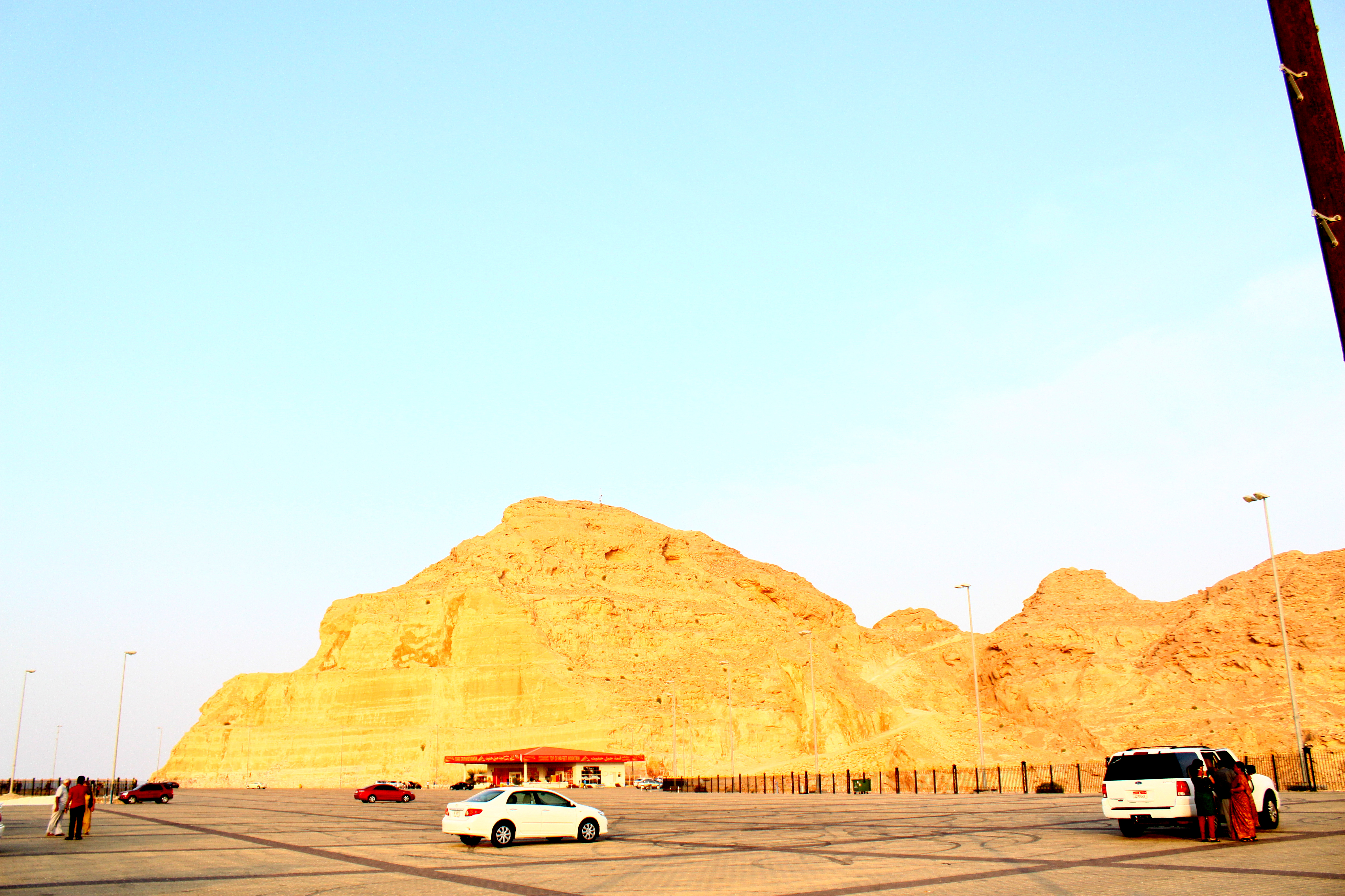 Jabal Hafeeth Mountain (Top)